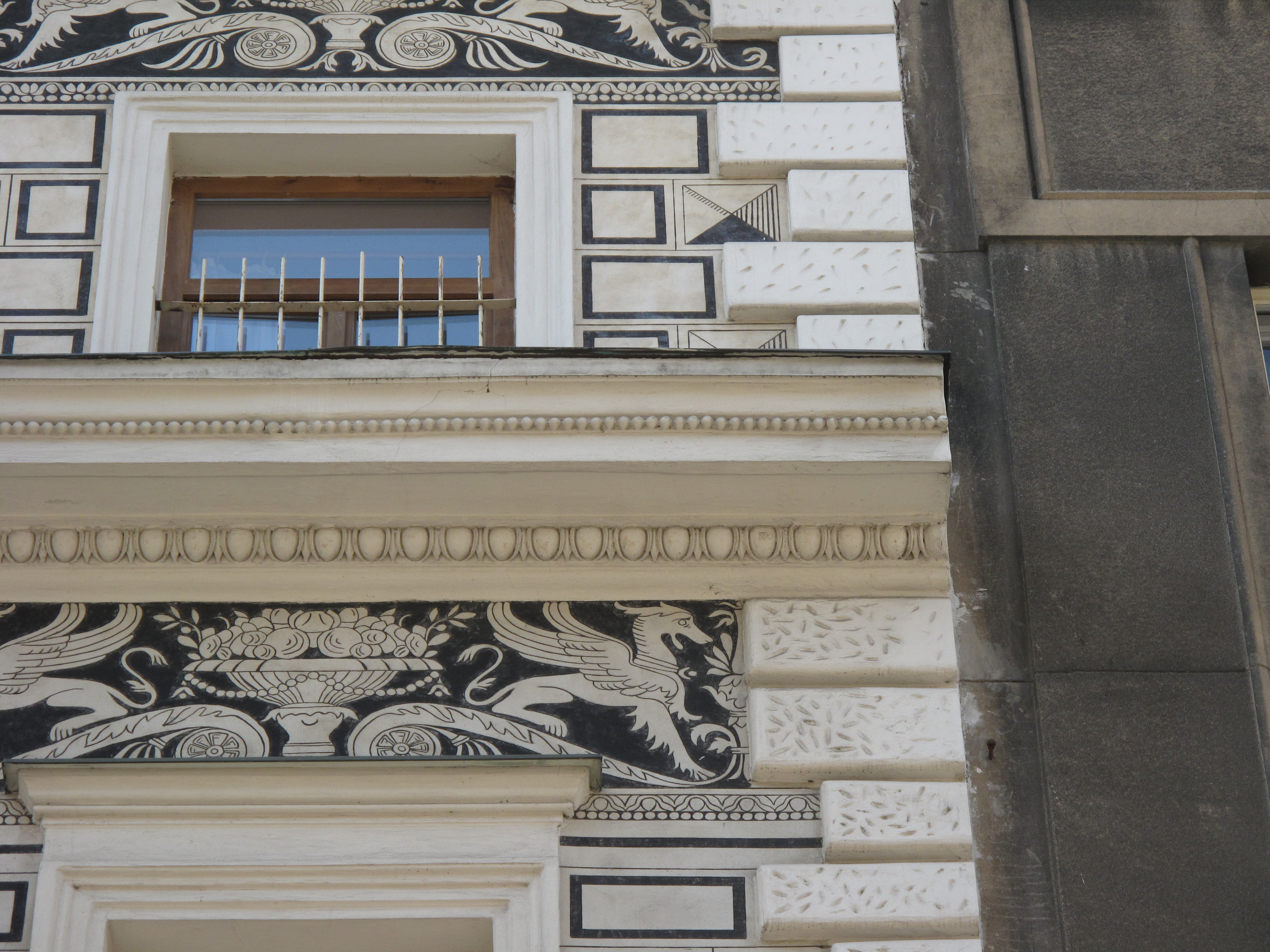 House of the Youth Detention Center Lublaňská 33, Prague 2 - New Town, Czech Republic. Neorenesance facade decorated by sgraffito and plastic rustication.